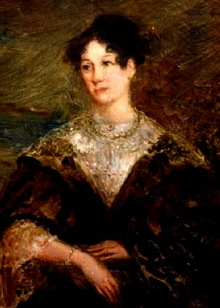 A portrait of Mary Storer Potter